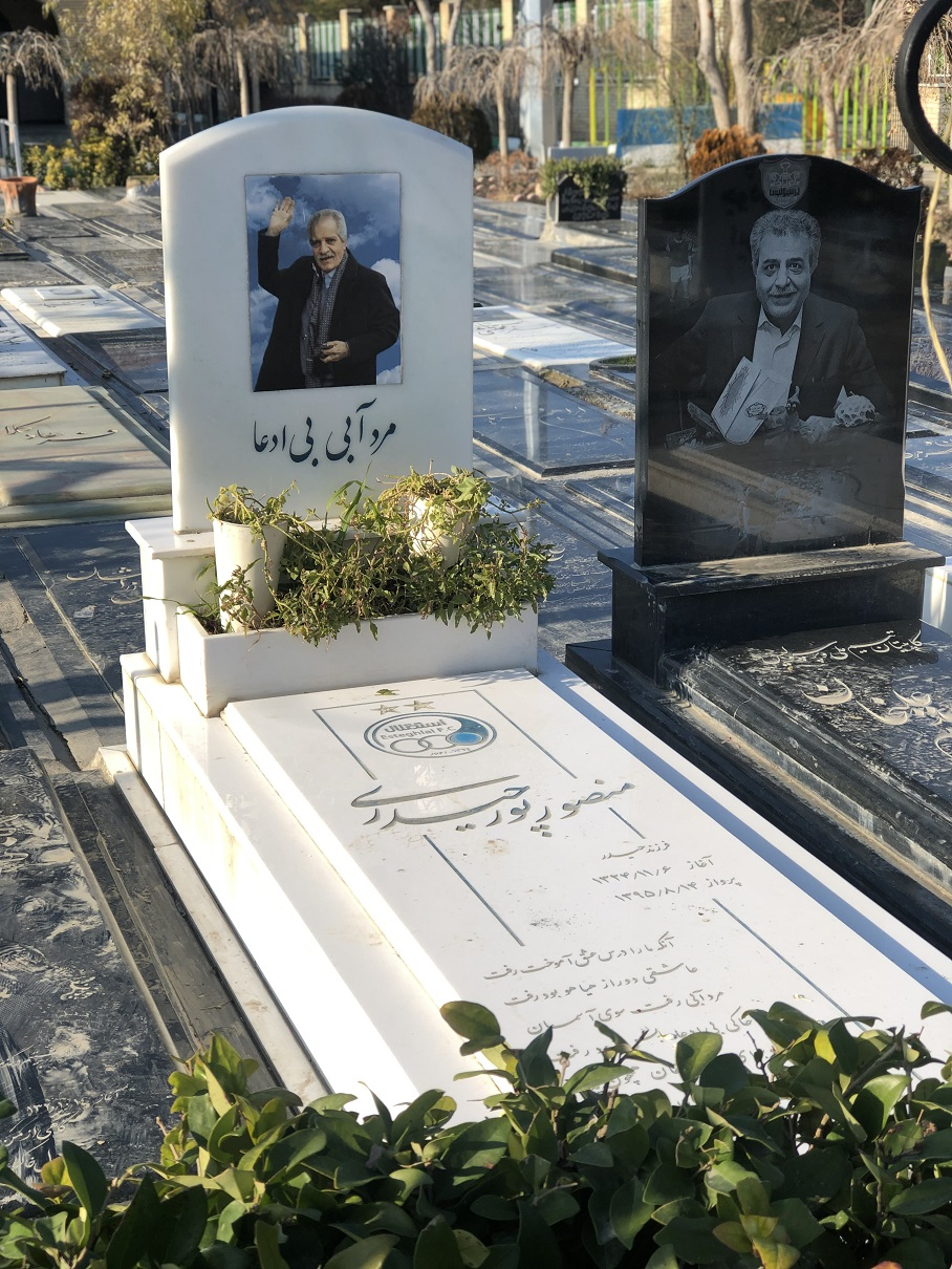 Behesht Zahra